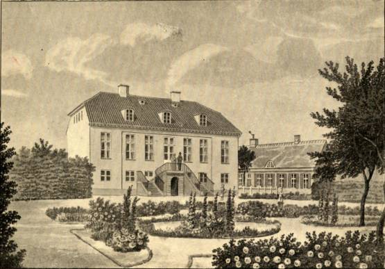 Rygård in Gentofte Parish north of Copenhagen, Denmark